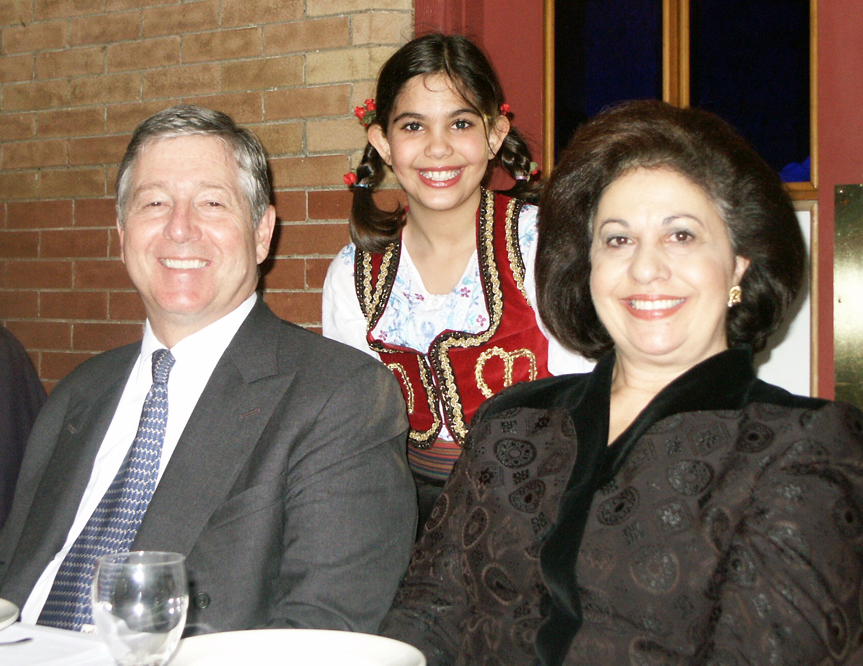 Alexander, Crown Prince of Yugoslavia and his wife Katherine, Crown Princess of Yugoslavia